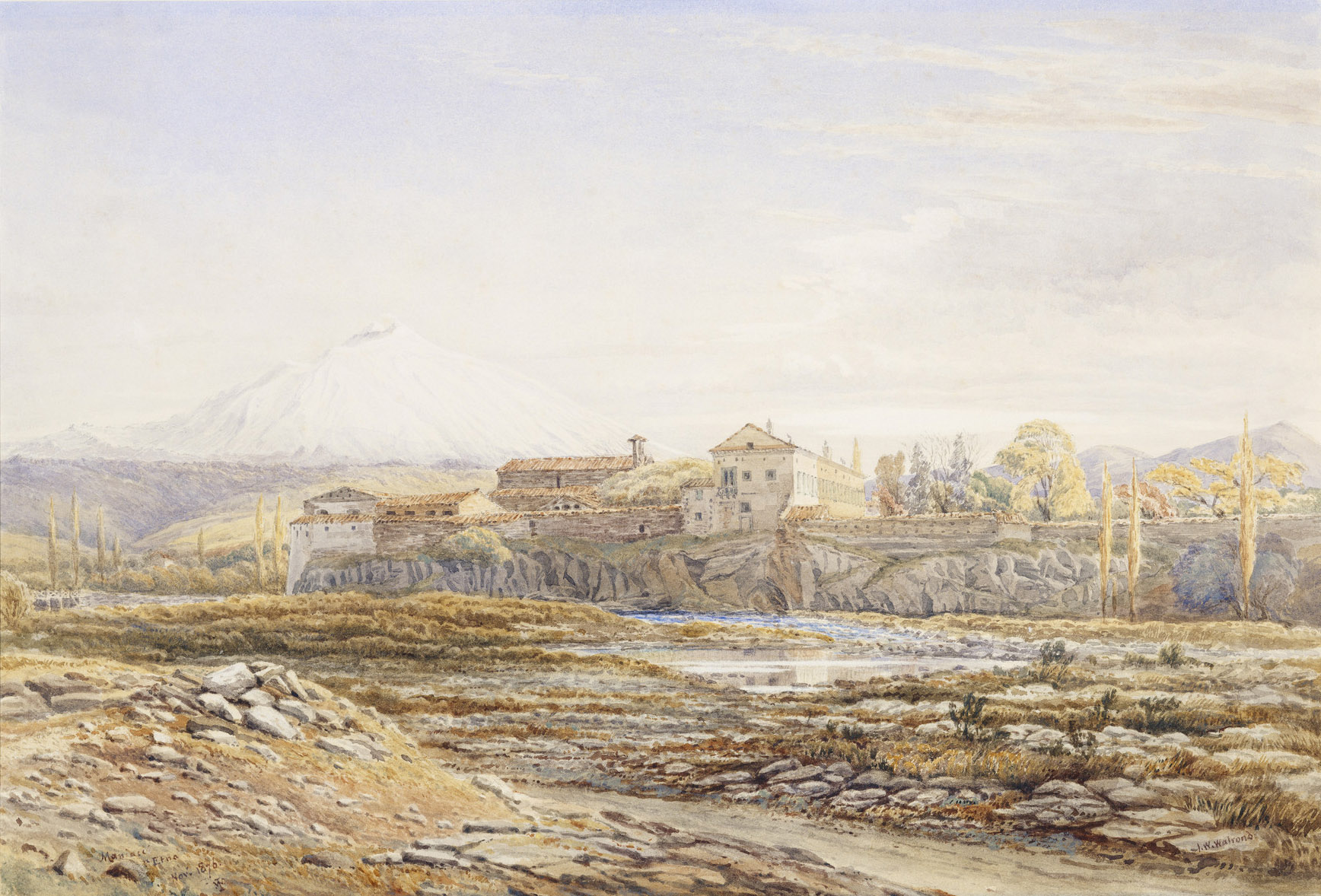 Castello di Maniace, near Bronte, Sicily, in 1876. Caput of the Duchy of Bronte, awarded to Admiral Lord Nelson in 1799 by the King of Sicily. Viewed from north across the dried up river bed of the River Saraceno, with Mount Etna in the background (the main crater of which is 15 km away to the south-east).